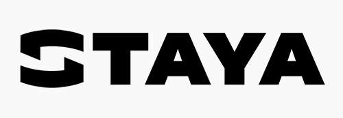 Staya band. New logo since 2010